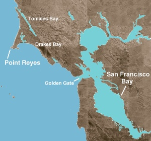 Point Reyes © 2004 Matthew Trump